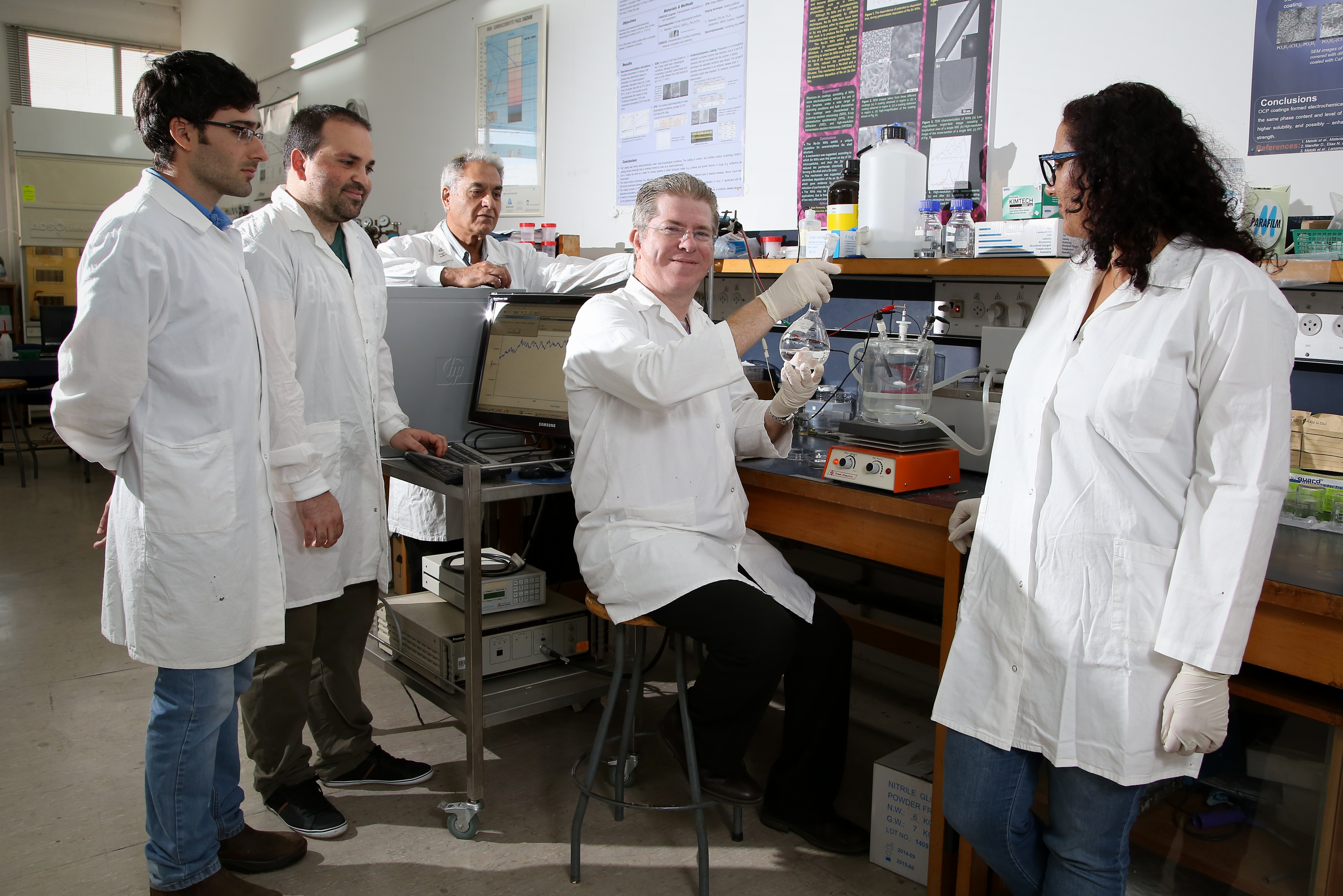 Beautiful Knowledge, Fulbright, Courtesy Greg Solomon